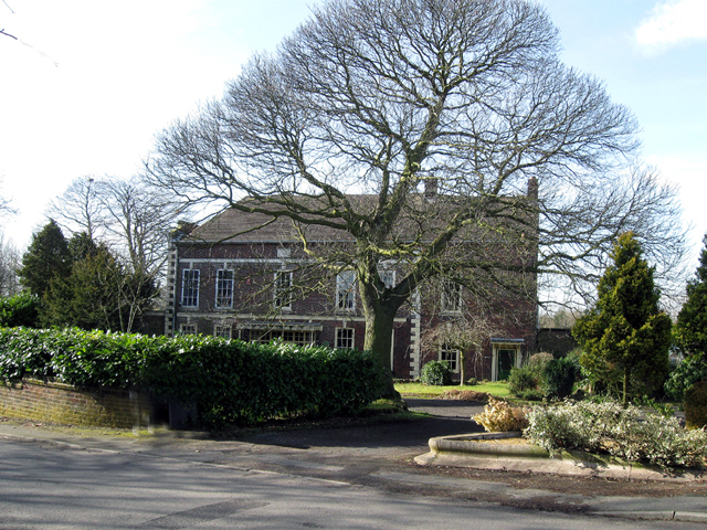 Bank House, Ketley Bank It is really only in Winter that the house can be seen fully, once the trees leaf the house is well hidden. This was once the home of William Reynolds (ironmaster) one of Shropshire's "giants" of the industrial revolution. He was the designer of the first "inclined plane" on the nearby Ketley canal.